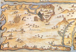 Rachol Church new picture